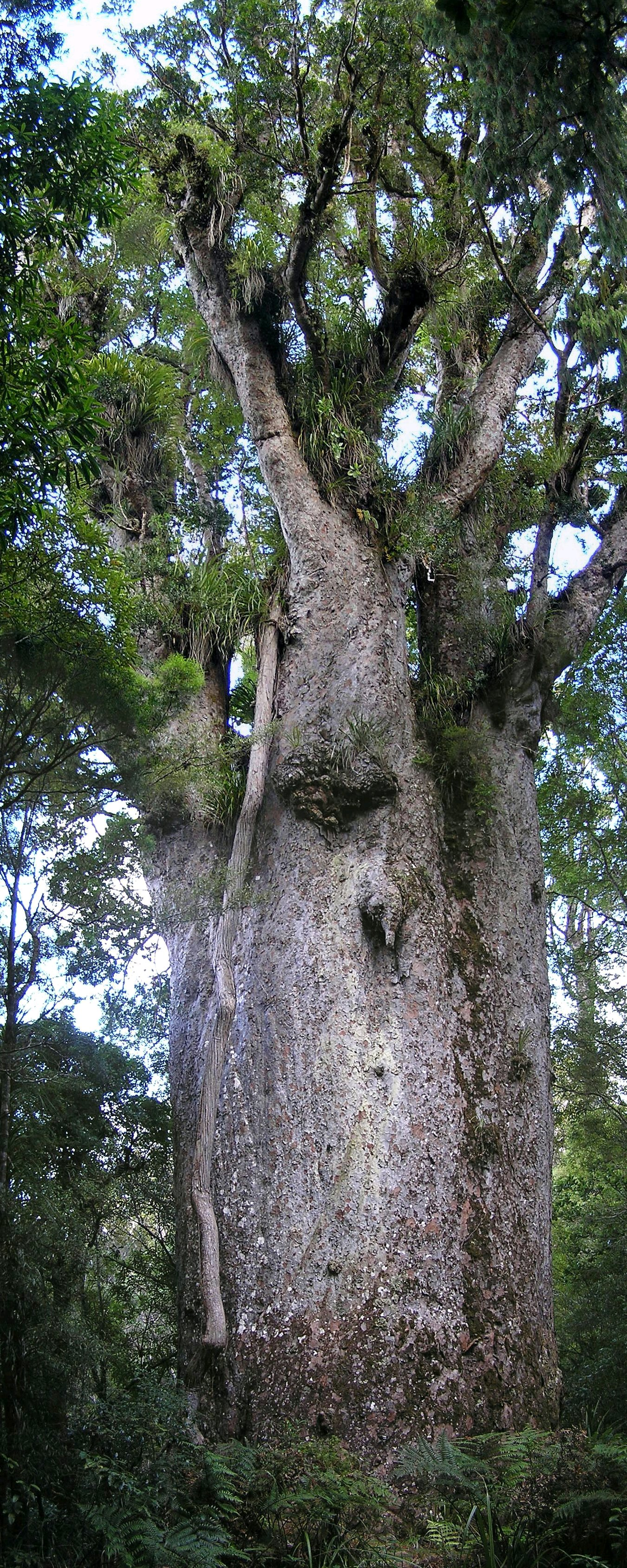 Kauri tree Te Matua Ngahere (Father of the Forest) at Waipoua Forest (Northland, New Zealand). Author: Mr. Tickle Date: March 28th, 2005